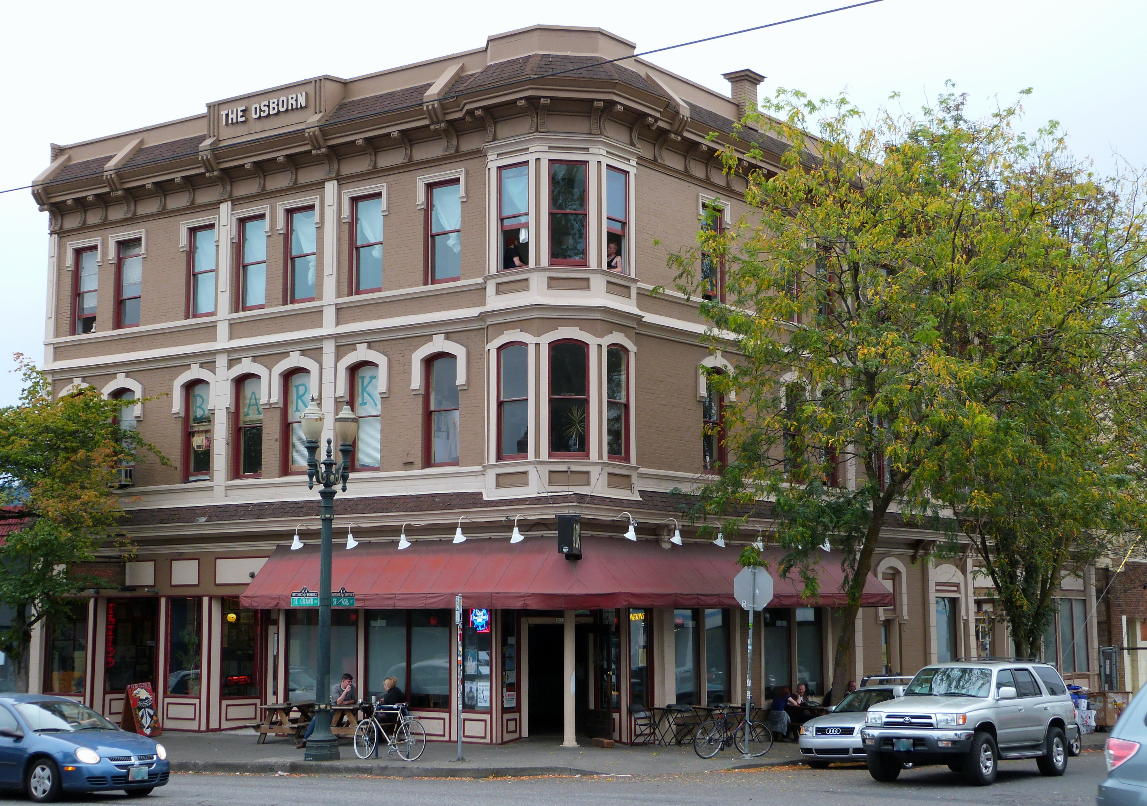 The historic Osborn Hotel (built 1893), located at 203-207 Southeast Grand Avenue in Portland, Oregon, United States, is listed on the US National Register of Historic Places. It is additionally identified as a contributing resource within the National Register-llisted East Portland Grand Avenue Historic District.